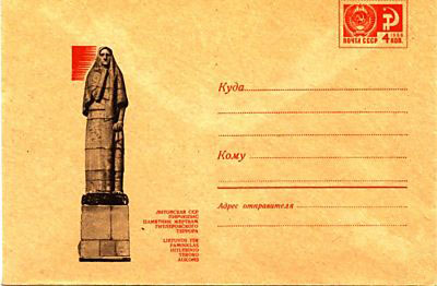 Soviet Union postal stationery. Monument in the village of Pirchupis. 1969.